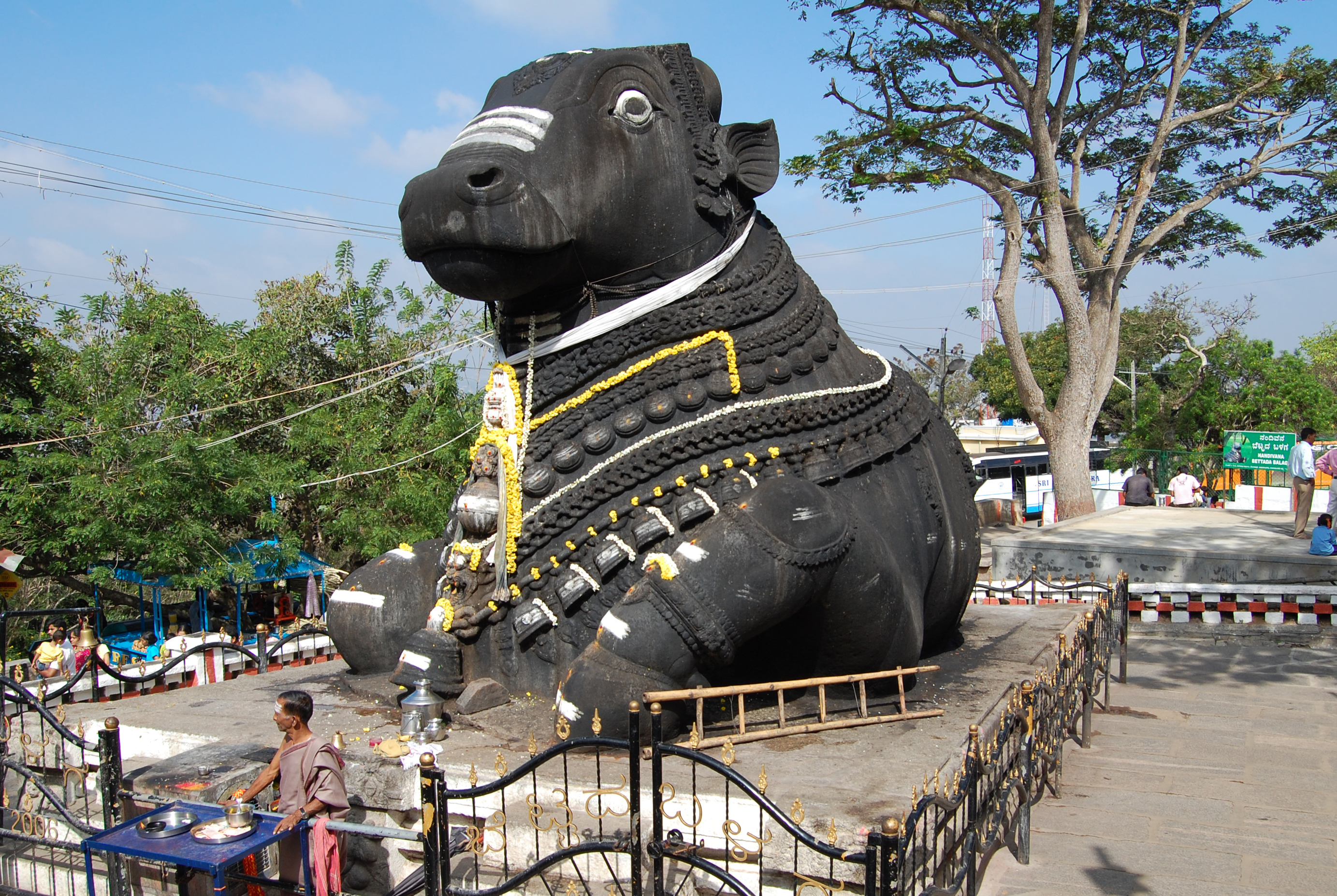 Statue of Nandi at Bull Temple at Chamundi, Mysore, Karnataka, India.